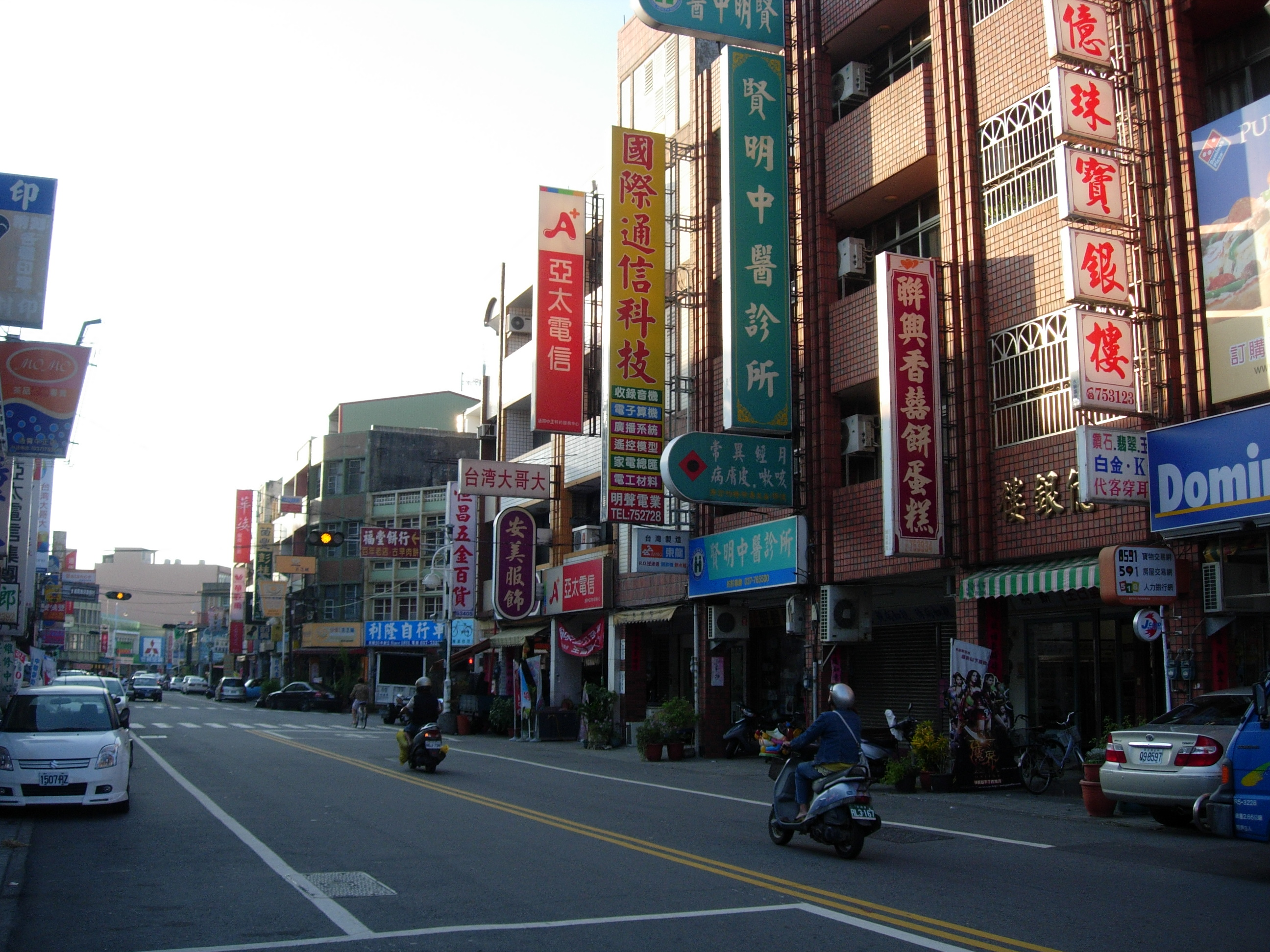 Tungshiau Town street